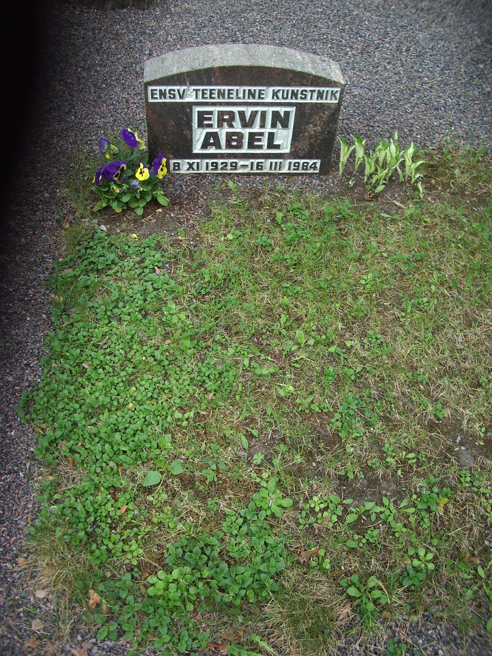 A tomb of Ervin Abel